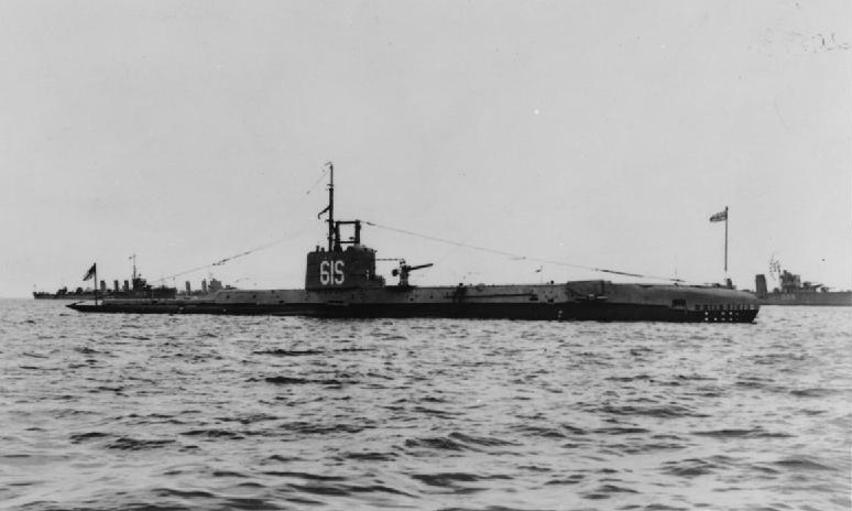 British S class submarine HMSM SWORDFISH at anchor at Weymouth.